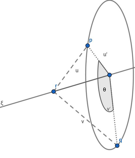 An illustration of the first Paden-Kahan subproblem. Created in Geogebra.